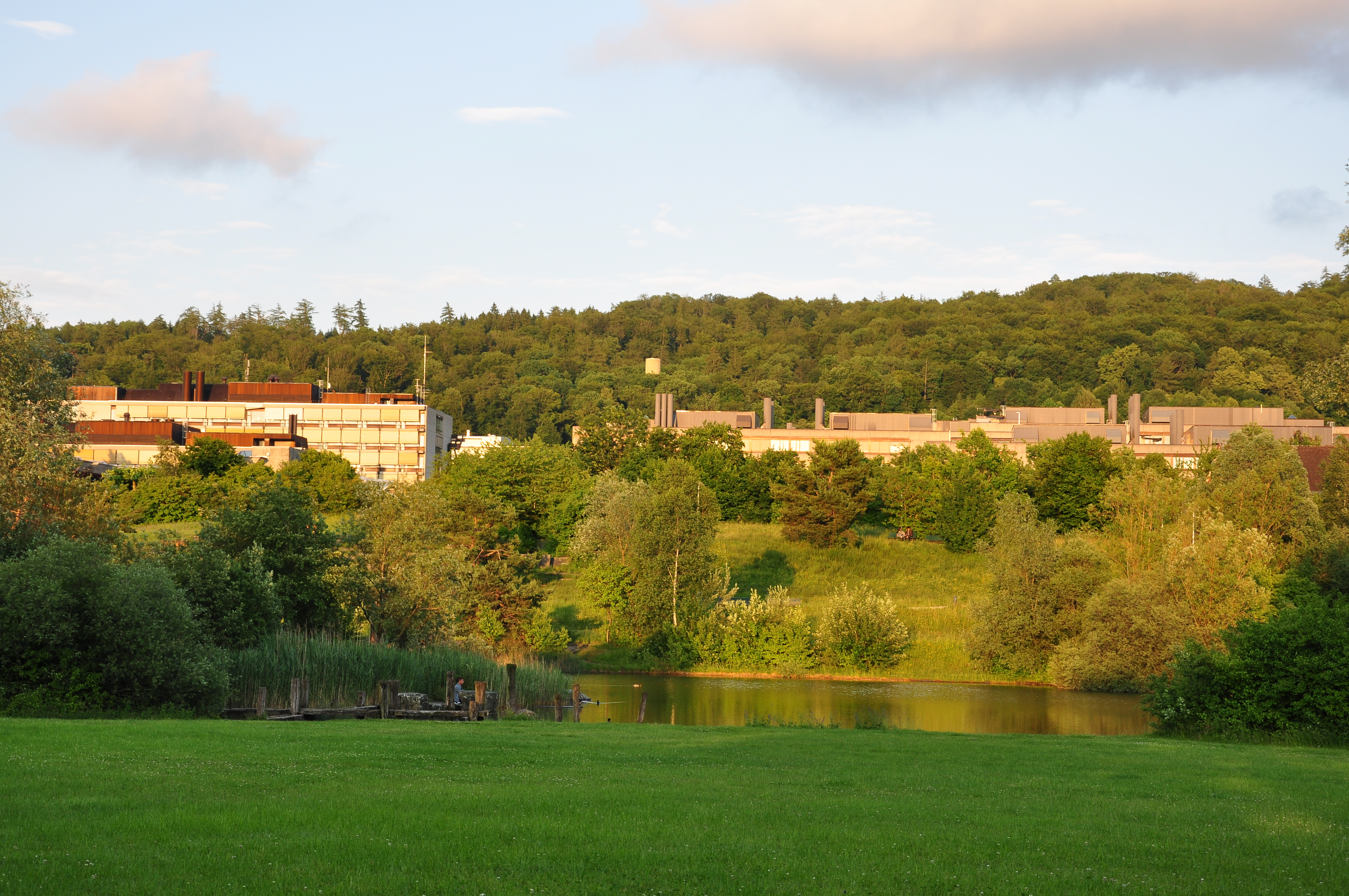 University of Zürich campus respectively Irchelpark in Zürich-Oberstrass (Switzerland)